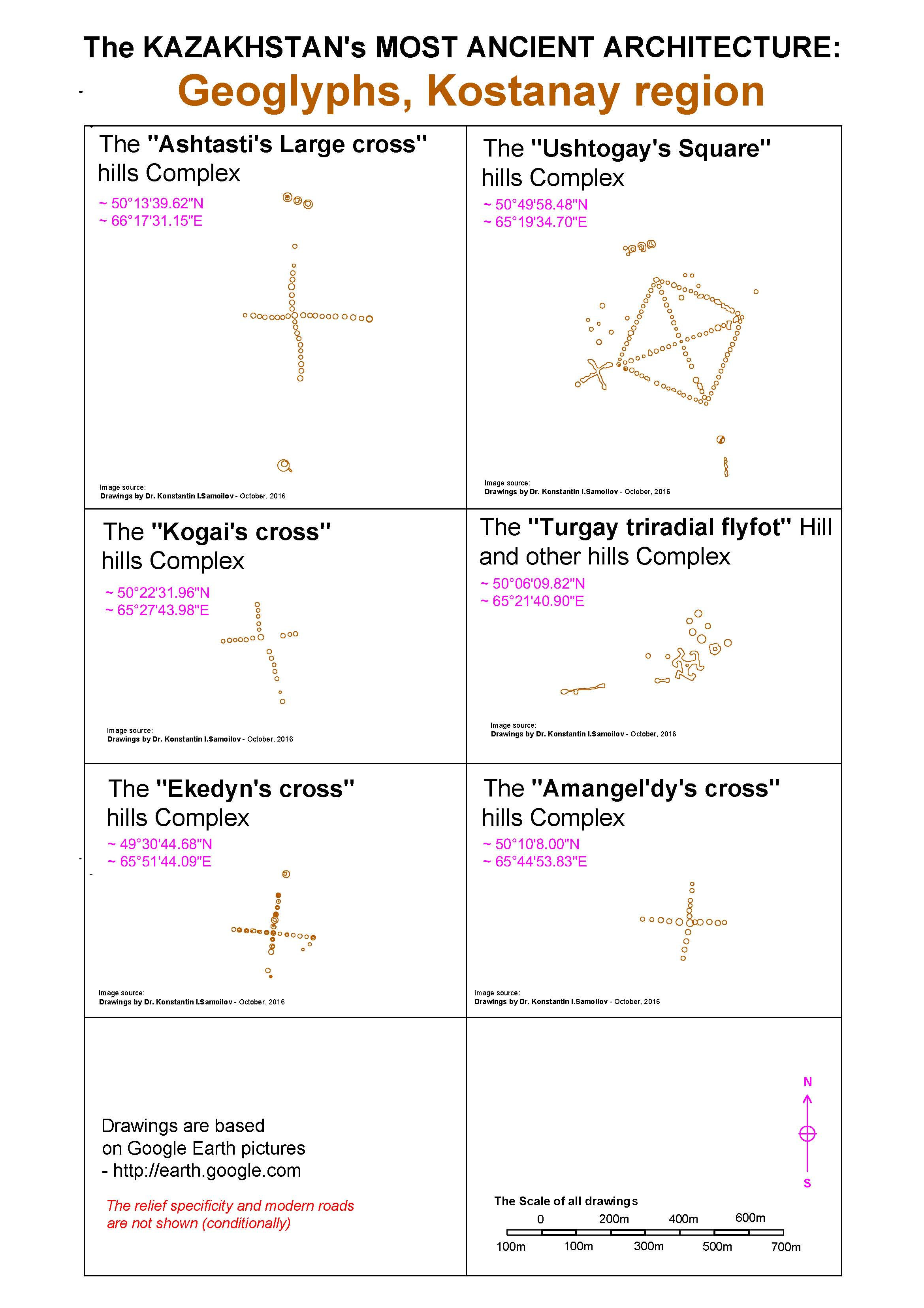 Geoglyphs in the Kostanay region (Kazakhstan) have different shapes and sizes. The greatest attention is attracted to six objects. The Graphical representation of these objects allows to analyze the geometry and the orientation.